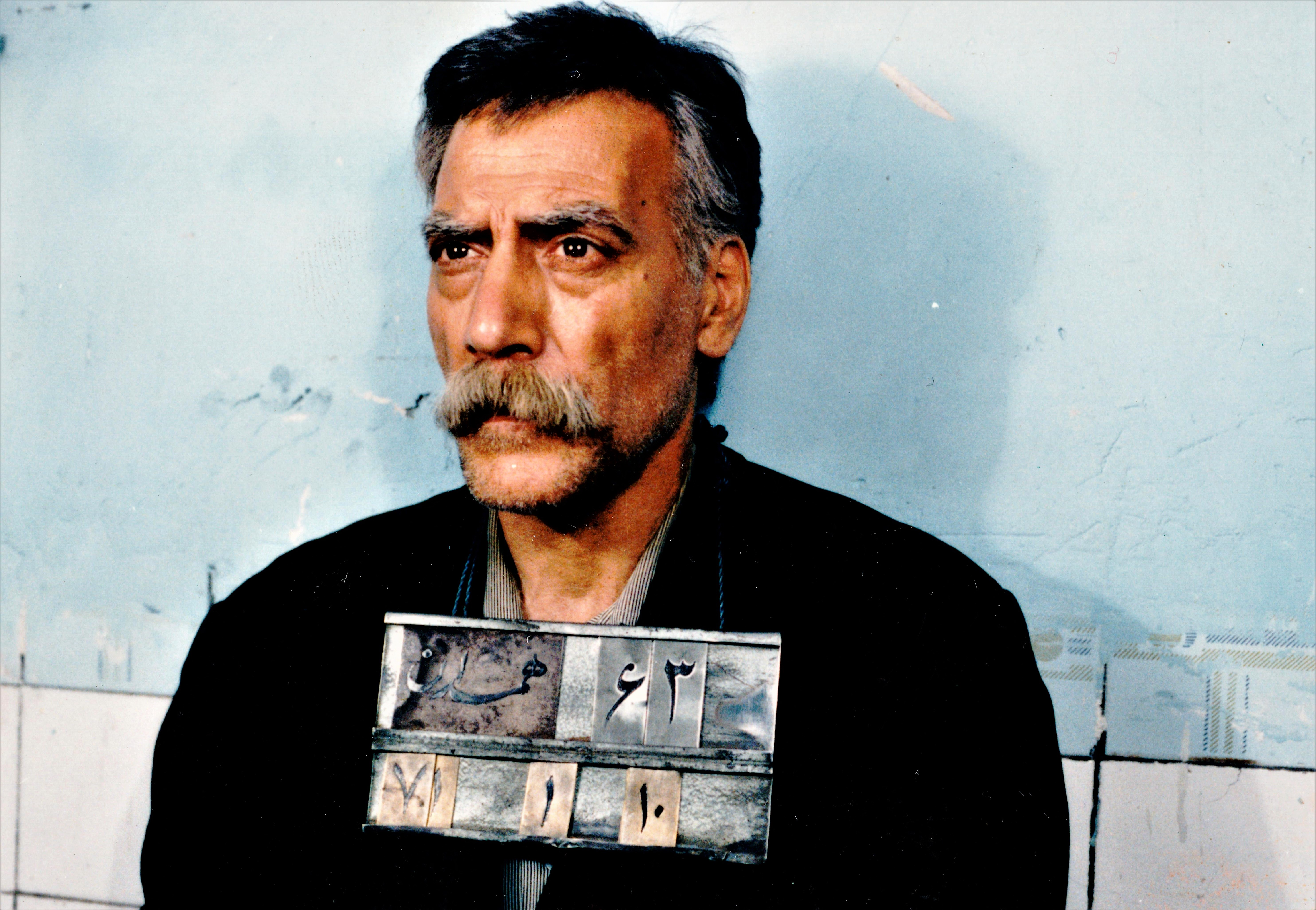 عکسی از هادی اسلامی در سهراب تا سهراب